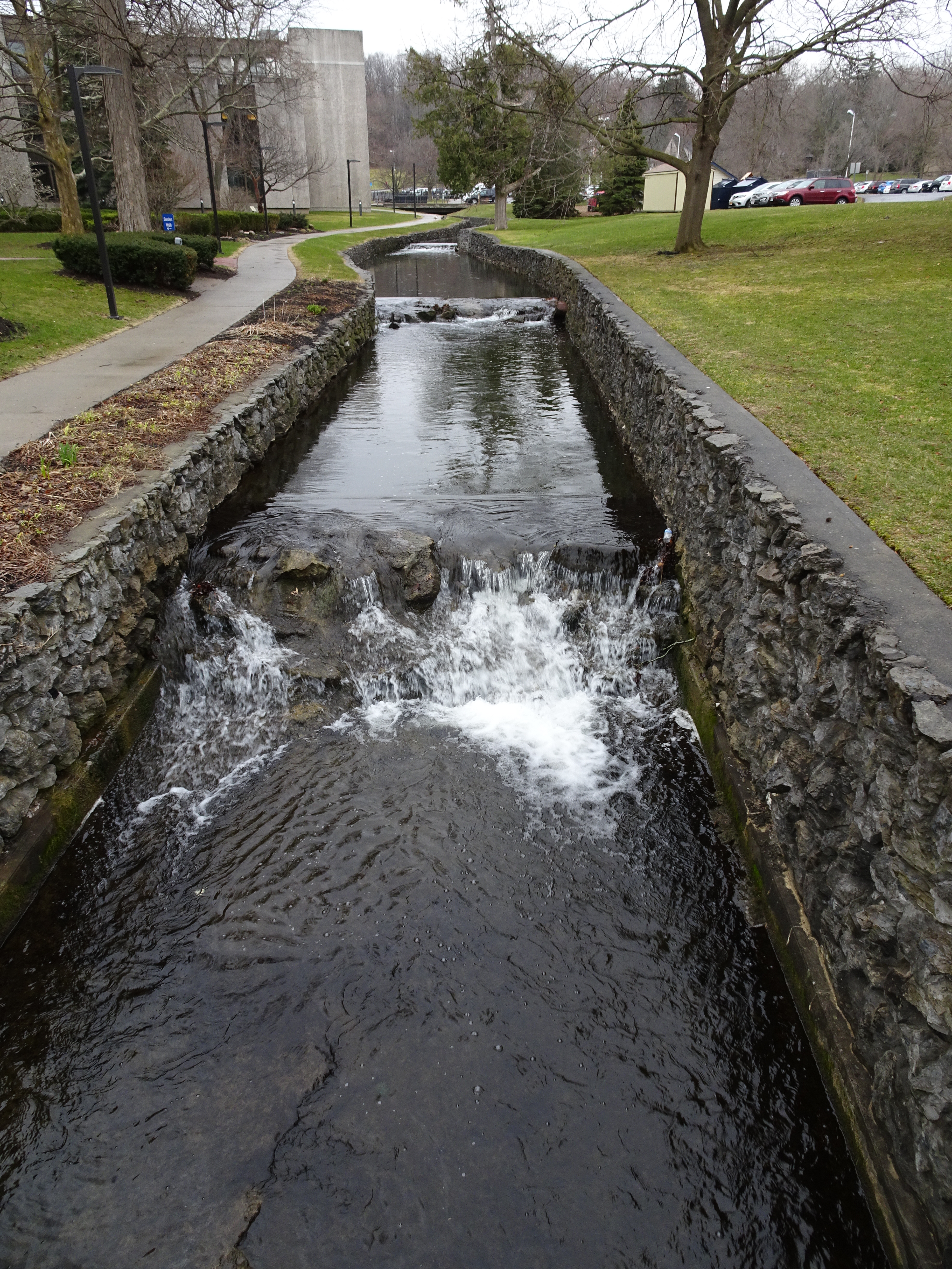 The mineral stream from Clifton Springs, New York.